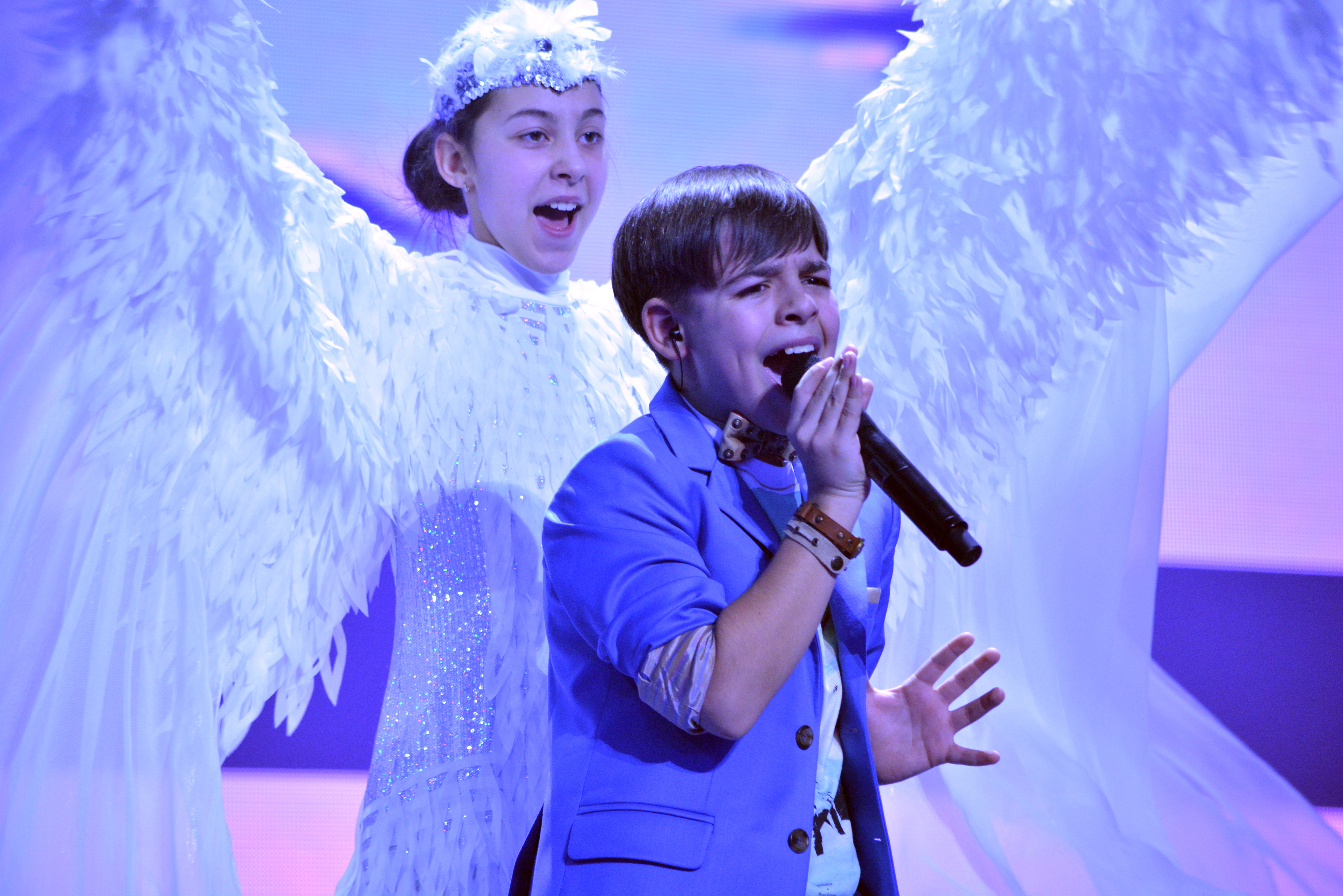 JESC 2013 (Moldova) Rafael Bobeica at rehearsal